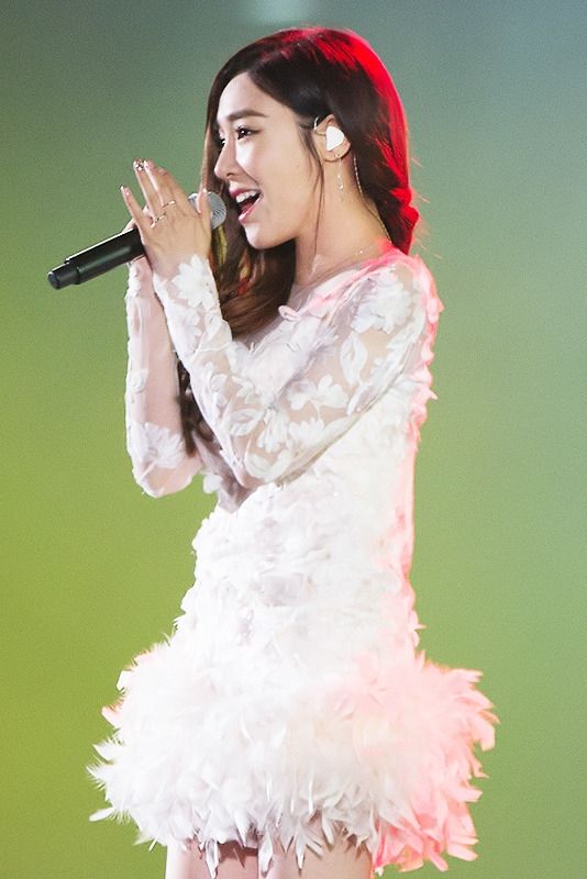 Tiffany Hwang at KBS Gayo Daechukje December 30, 2015.